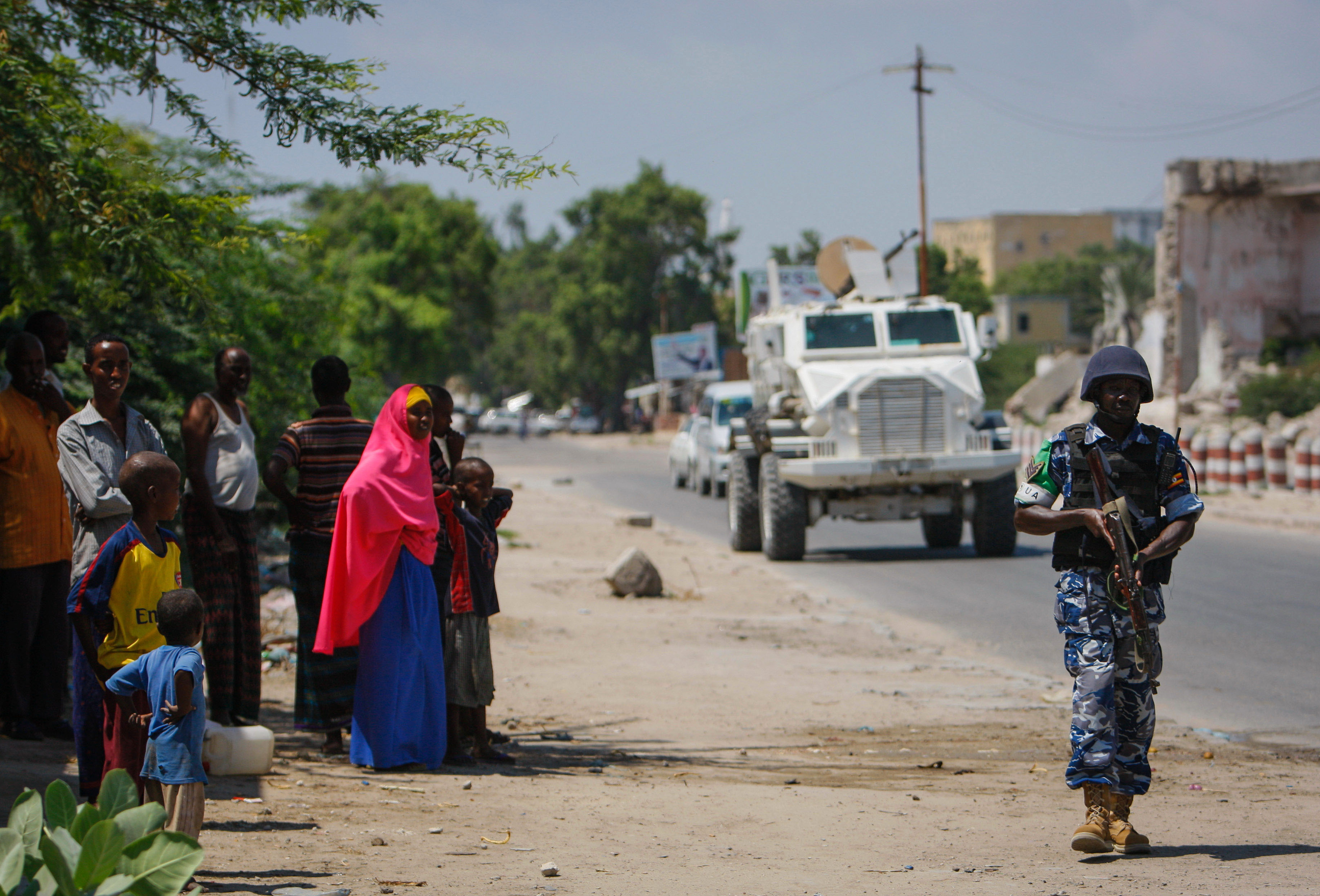 Somali civilians look on as a Ugandan police officer serving as part of a Formed Police Unit (FPU) with the African Union Mission in Somalia (AMISOM) walks past during a foot patrol in the Kaa'ran district in the Somali capital Mogadishu 09 November 2012. AMISOM's FPUs are working with their counterparts in the Somali Police Force (SPF) in helping to provide security in Mogadishu in addition to training and mentoring the SPF on policing techniques and practises. AU-UN IST PHOTO / STUART PRICE.